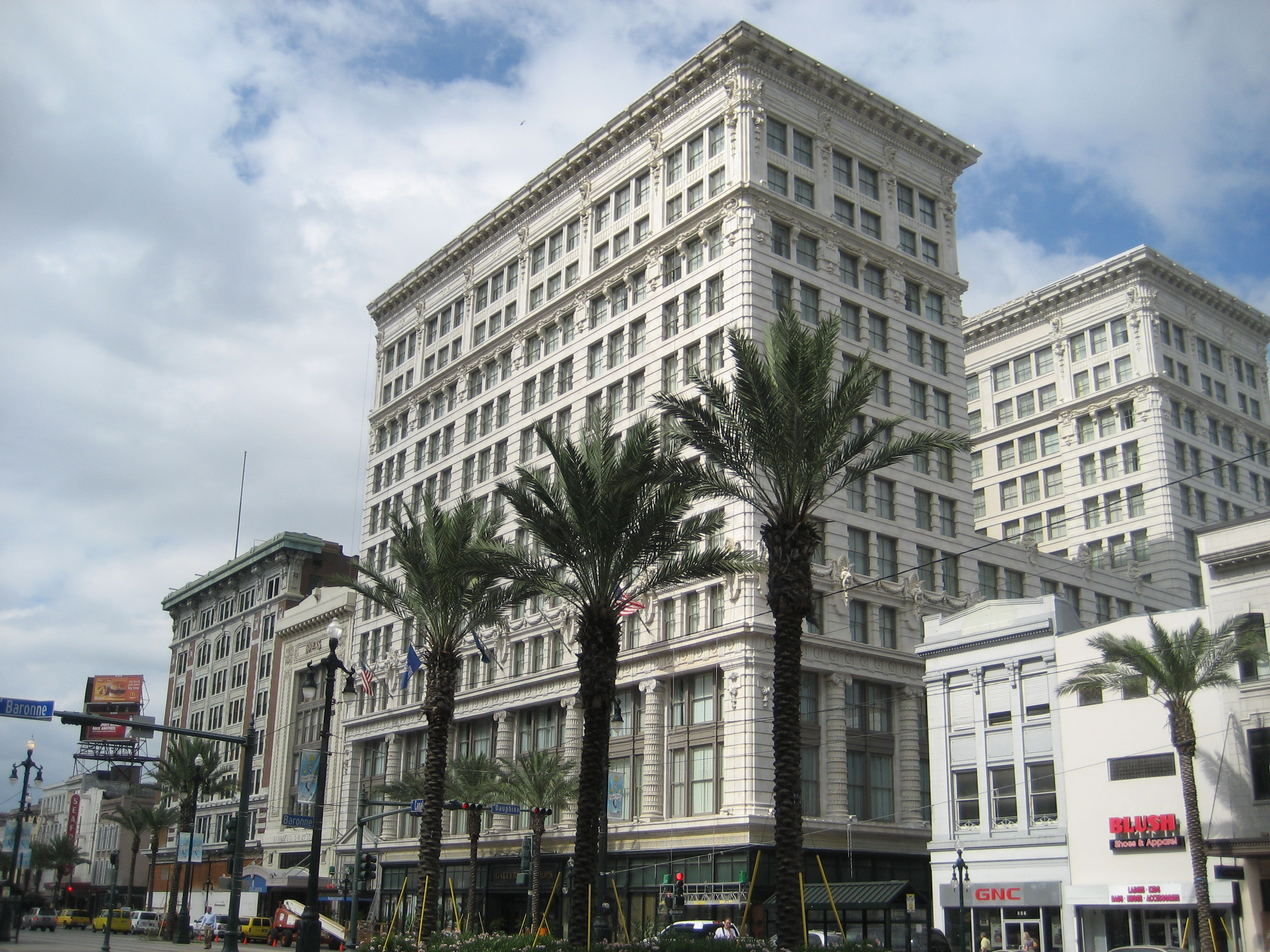 New Orleans: Canal Street, Central Business District. View of the Maison Blanche Building. Built in 1908-1909, for generations it housed a leading local department store on the lower floors and offices on the upper. The building now houses the Ritz-Carleton Hotel.